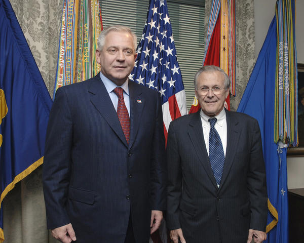 Secretary of Defense Donald H. Rumsfeld, right, and Prime Minister of Croatia Ivo Sanader pose for photos at the Pentagon Oct. 17, 2006. The two leaders are meeting to discuss defense issues of mutual interest. DoD photo by Helene C. Stikkel. (Released)